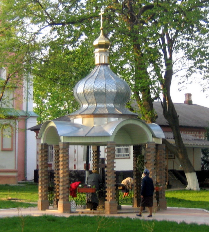 Цілюще джерело